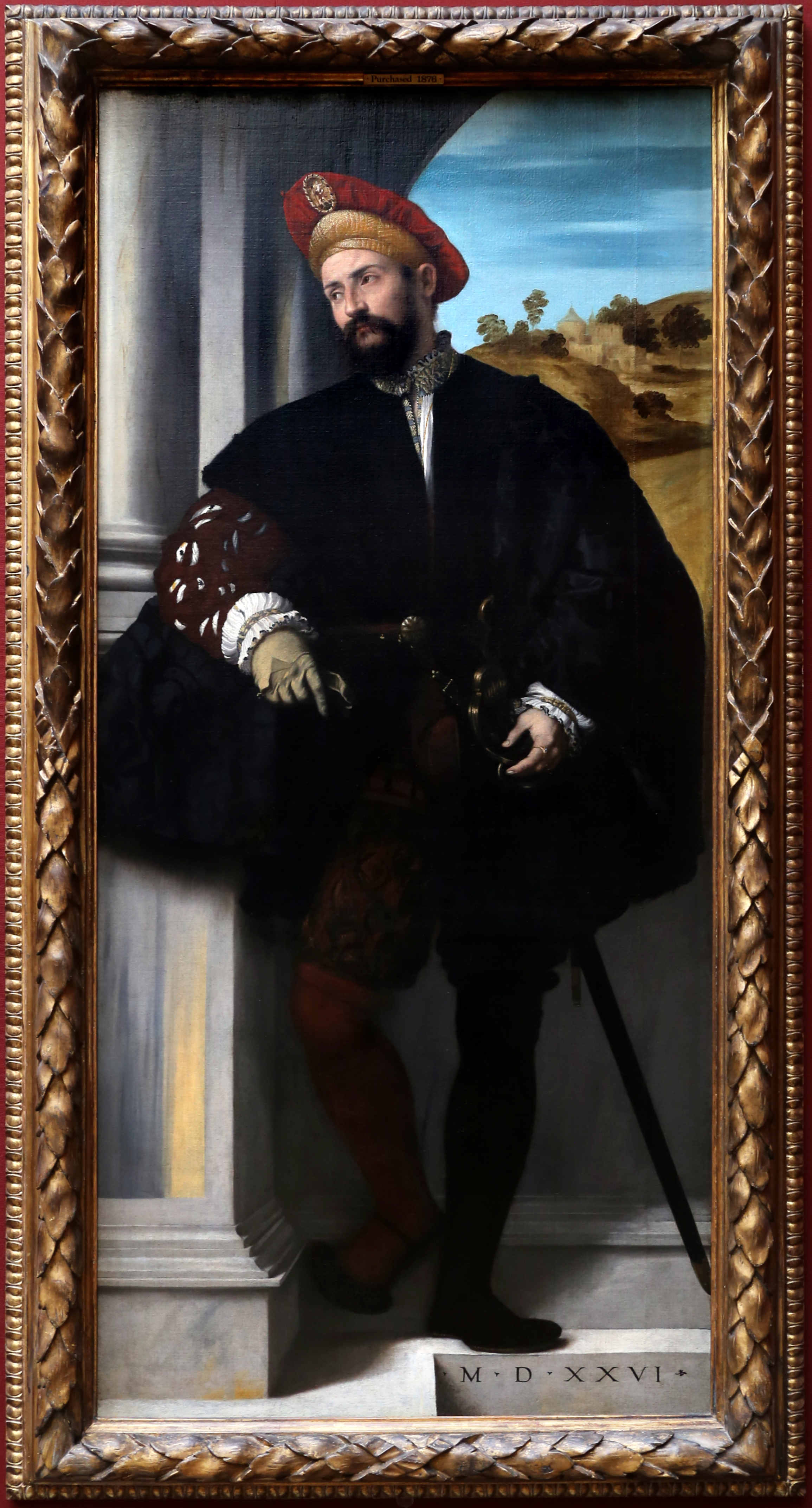 Italian Mannerist paintings in the National Gallery, London